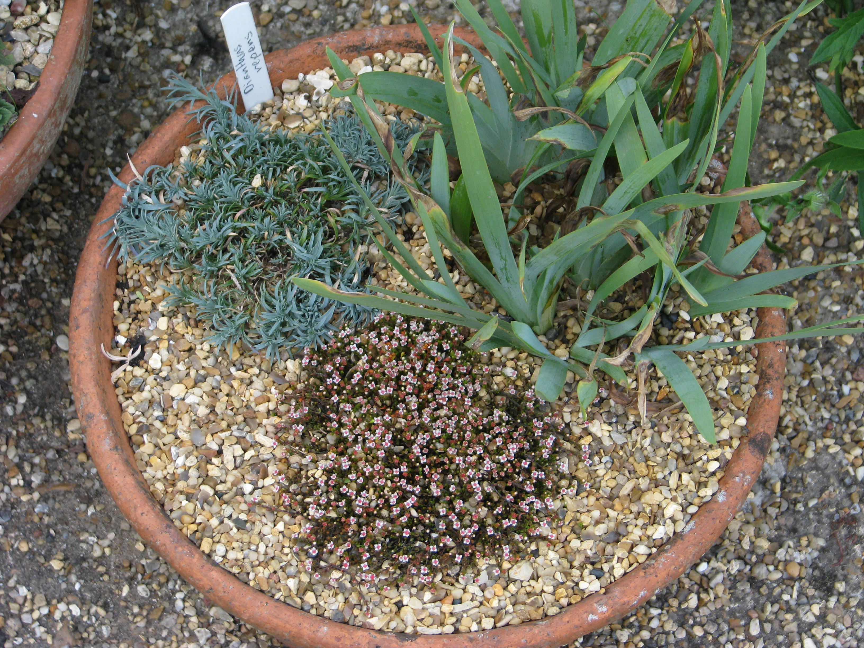 I originally came across this tiny species among the hardy succulents at Paul Spracklin's place on the Essex Riviera where it was doing a passable impression of a very pretty moss. I came across it again a week or two ago for sale at Borde Hill Plant Finders' fair - still without a name. The other plants are Iris attica and Dianthus repens. The Crassula is about 4ins across - to give the pic some scale.